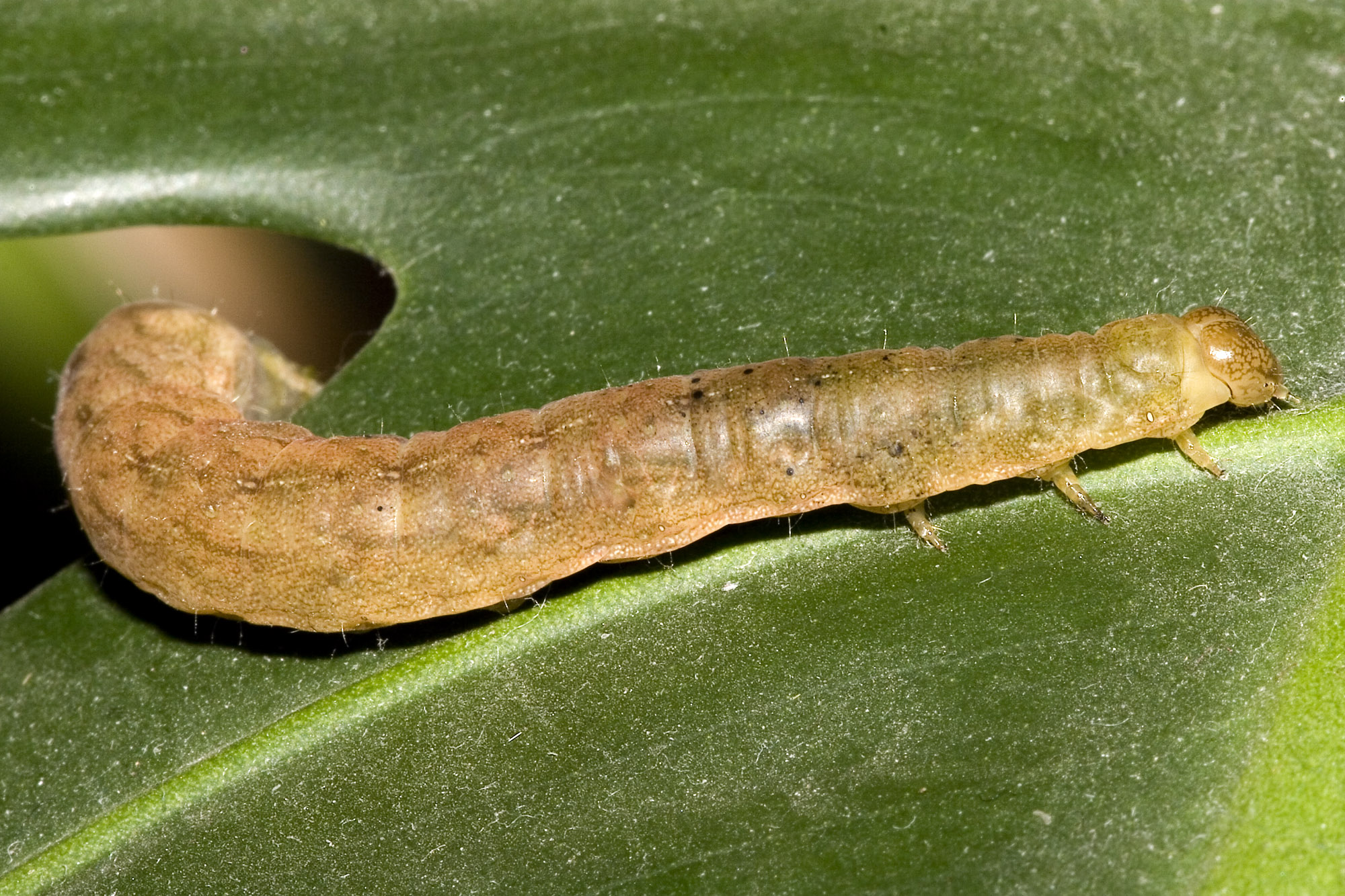 Angle Shades, Phlogophora meticulosa (Linnaeus, 1758); Many thanks to Thomas Fähnrich from for determination!